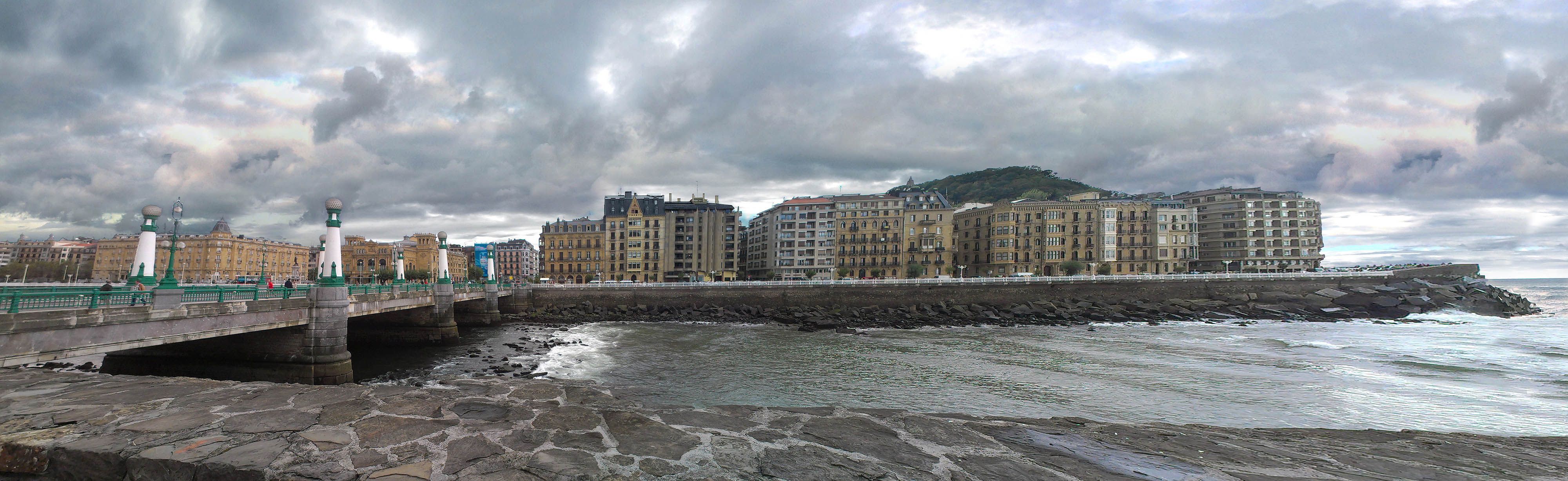 Zurriola bridge over Urumea river in San Sebastian, north of Spain